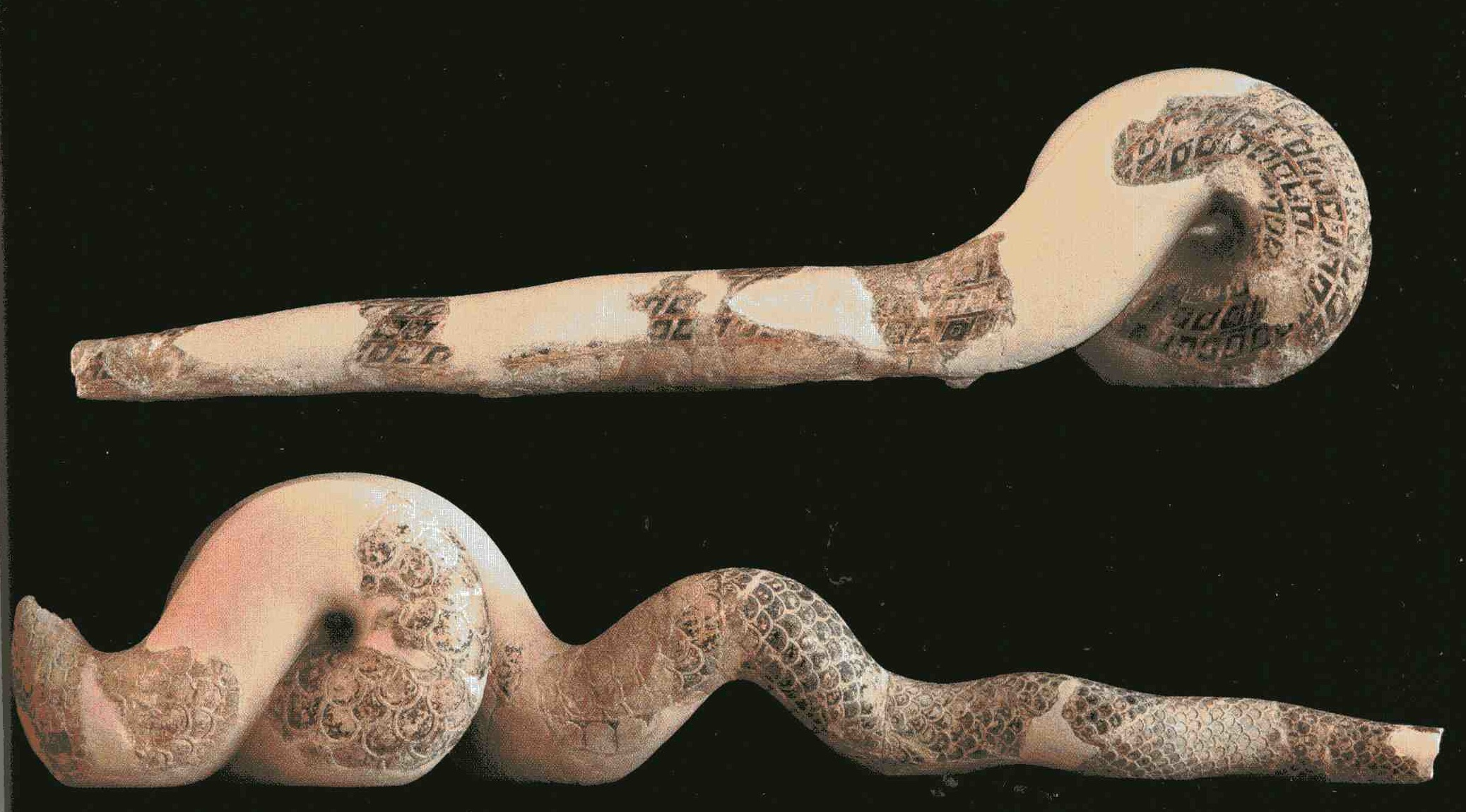 Snakes at the right and left corners of the East pediment of the Hekatompedon (Athens, acropolis museum)